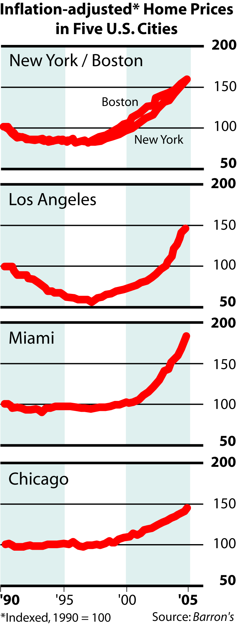 Plot of inflation-adjusted home home price appreciation in several US cities, 1990–2005, reproduced from data in the Barron's Magazine article "The Bubble's New Home", 20 June 2005 (article available at New York City Real Estate Blog).